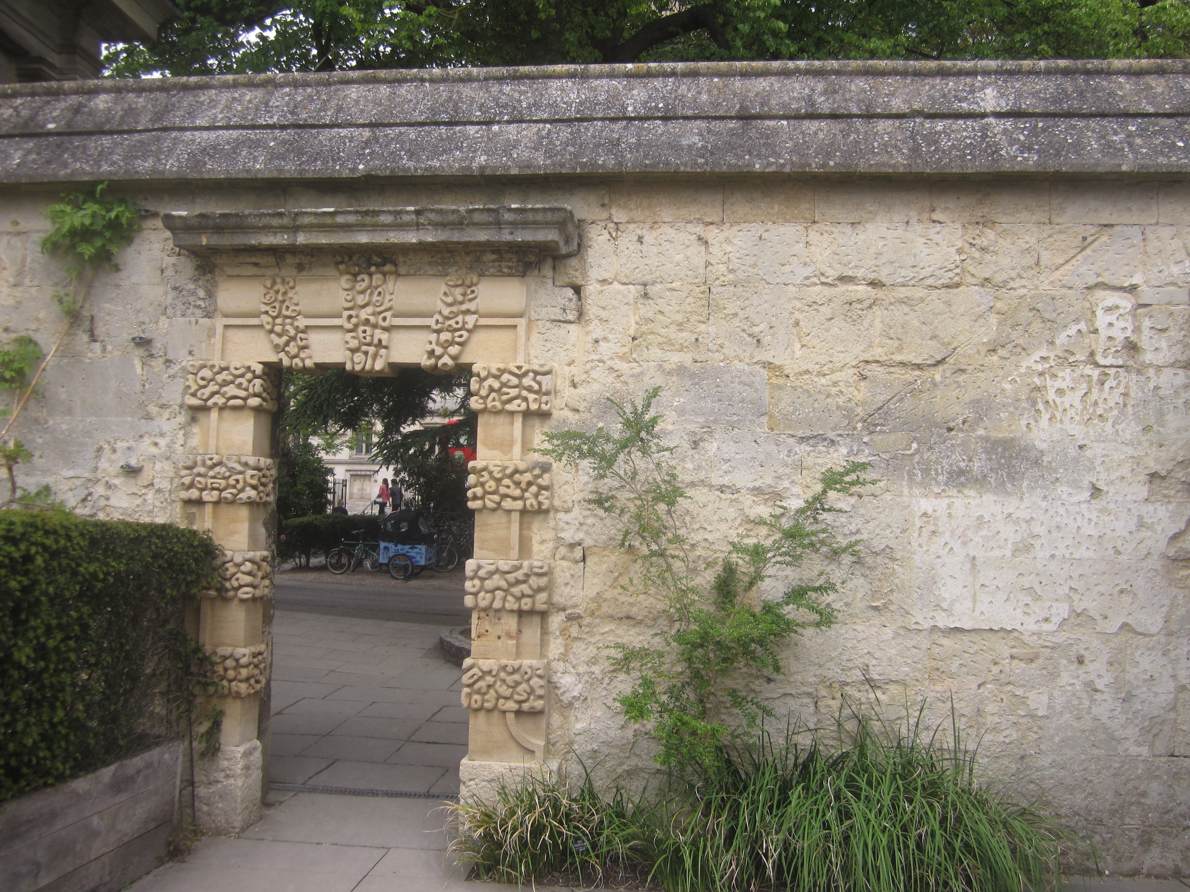 17th- or 18th-century wall between Danby Gateway and former Professor's House, University of Oxford Botanic Garden, Oxford, England. The portal has a Gibbs surround.